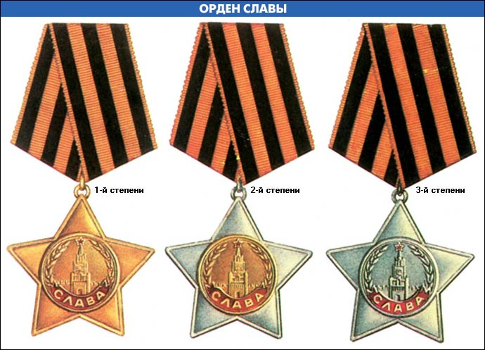 Soviet Order of Glory